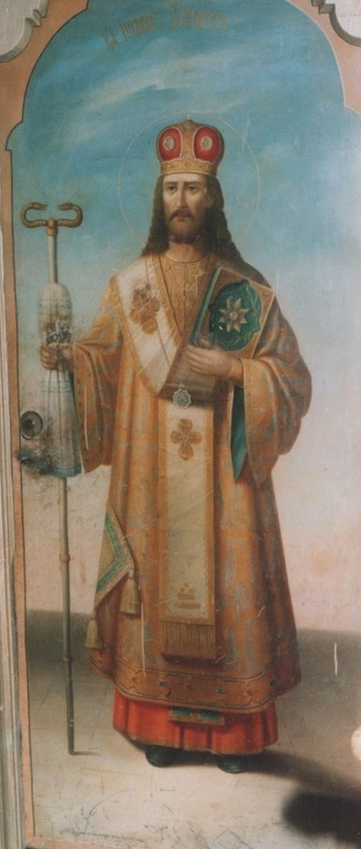 Saint John Chrysostom on the south altar door by Gavril Atanasov in Berovo Archangels Monastery.